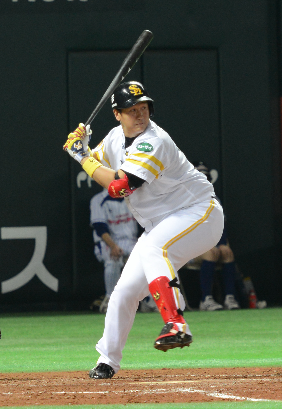 Dae-ho Lee, infielder of the Fukuoka SoftBank Hawks, at Fukuoka Dome.